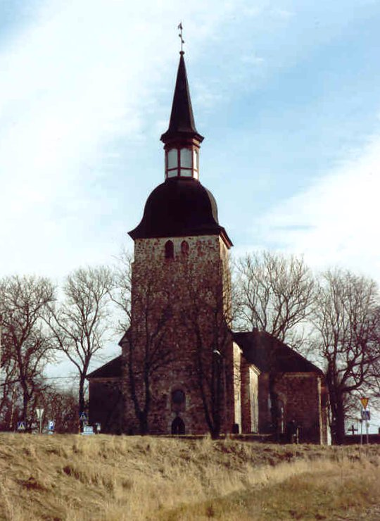 Jomala Church in Jomala, Åland, Finland.